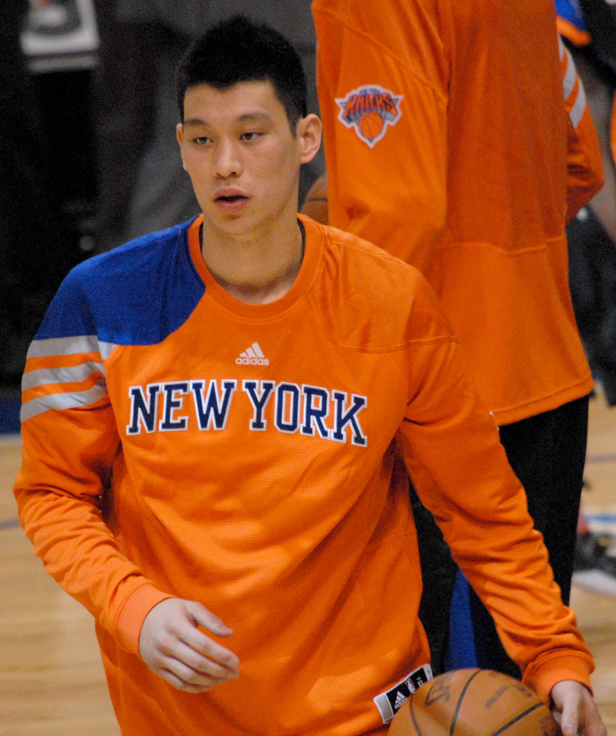 Jeremy Lin with the New York Knicks